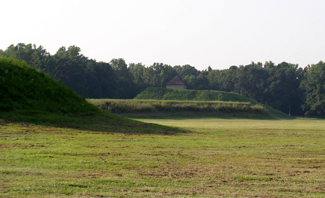 A photo of Mound J, A, and B at the Moundville Archaeological Site.